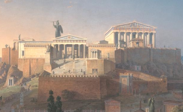 Detail of the Akropolis by painter Leo von Klenze (1784 - 1864) (Reconstruction of the Acropolis and Areus Pagus in Athens, 1846)